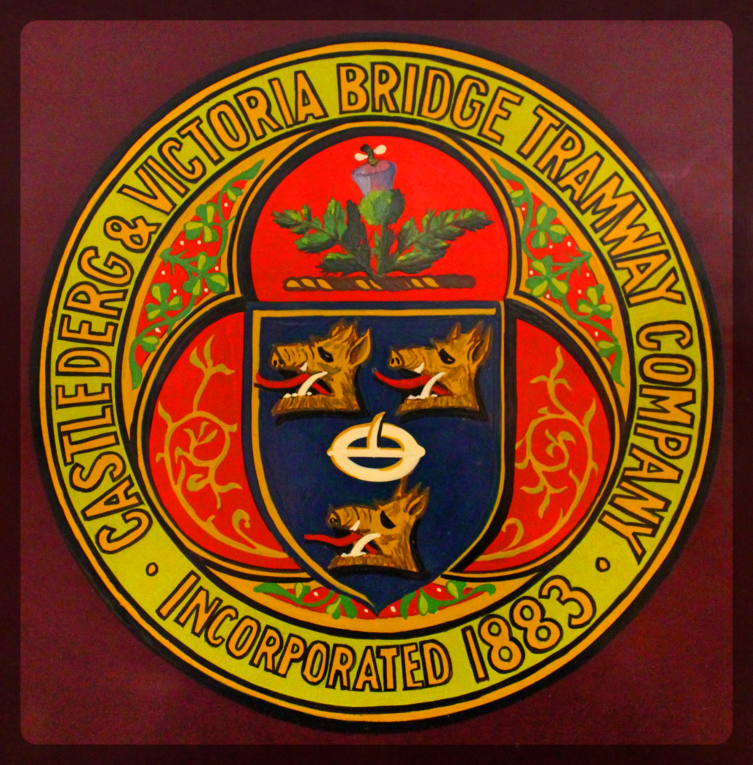 CVBT Crest